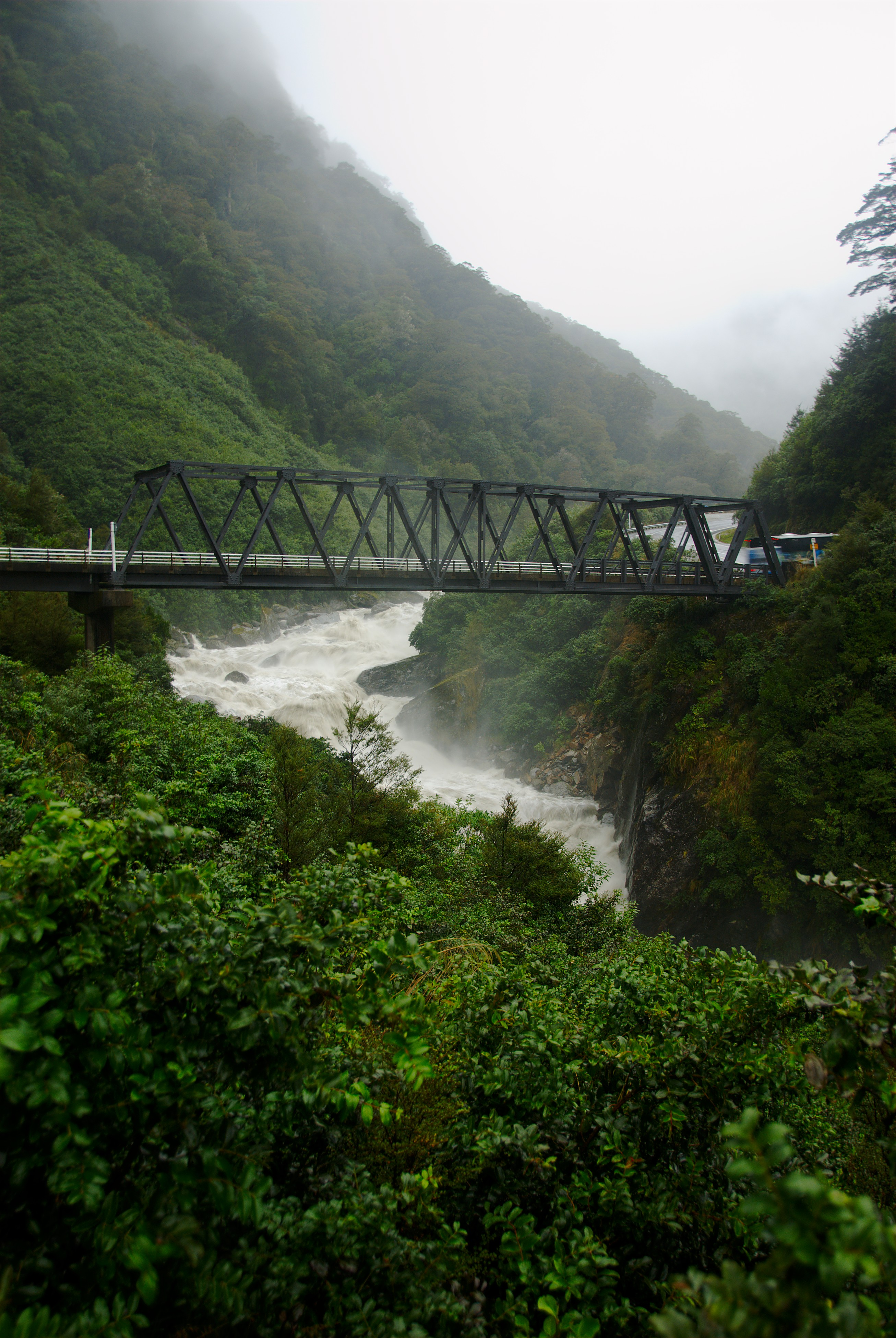 Gates of Haast Bridge: The Haast River in full spate in the mountains.